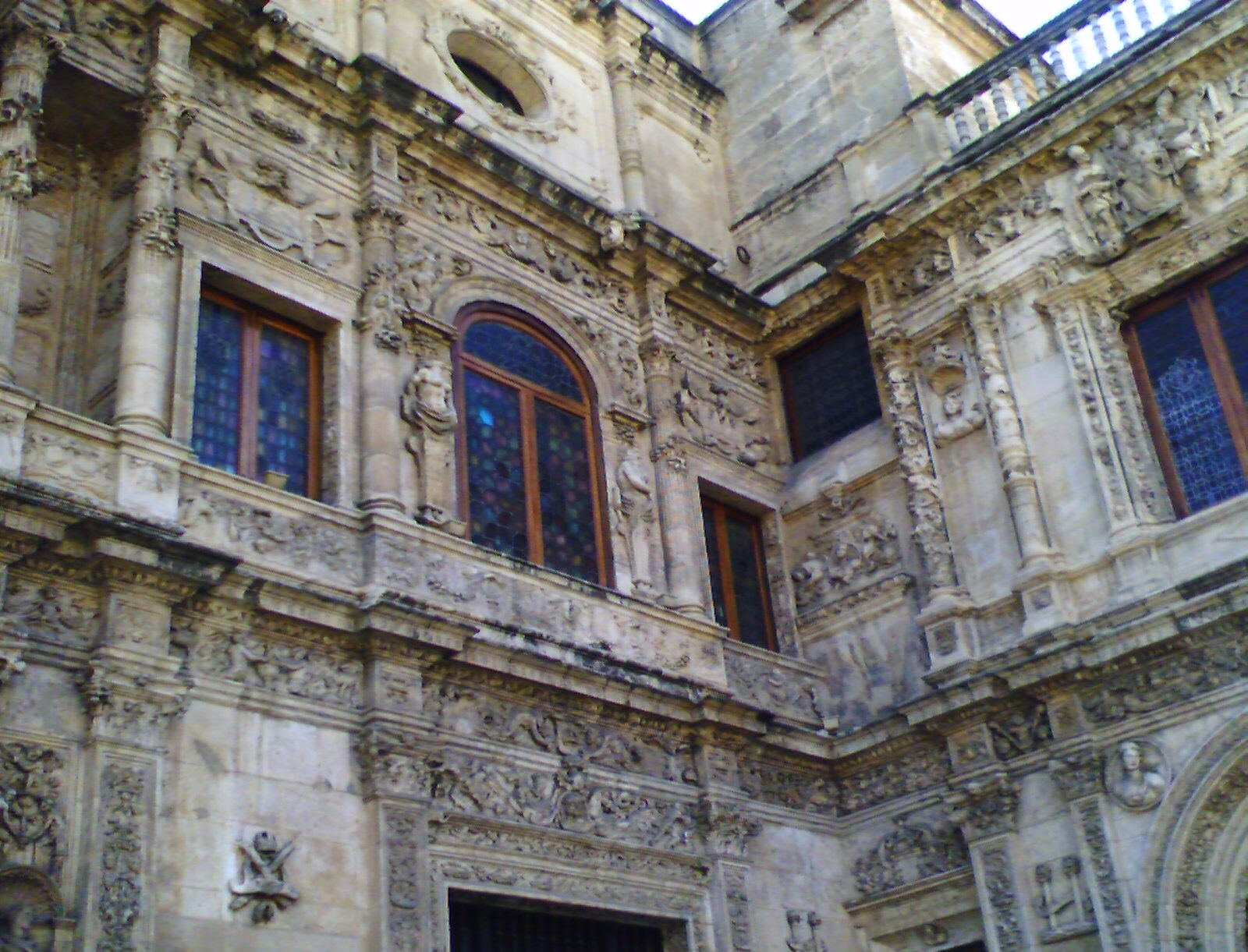 Seville Town Hall, an example of Plateresque style by Diego de Riaño, Hernan Ruiz and Benvenuto Tortelo. Photo by E Asterion u talking to me?